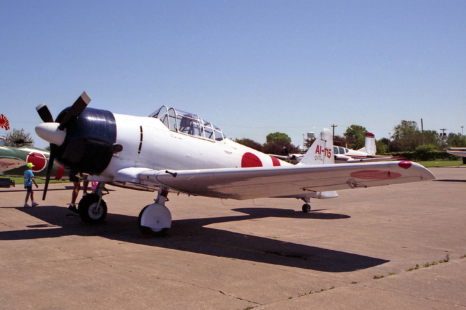 The Replica Zeros were based on the SNJ/AT-6 with the most noticeable changes being made to the cockpit area. The rear cockpit was decked over and the canopy was reconfigured to resemble the A6M. The engine cowling was also reshaped and a different spinner was added. This Zero was used in the 1969 movie Tora - Tora - Tora. (Scan from film negative)